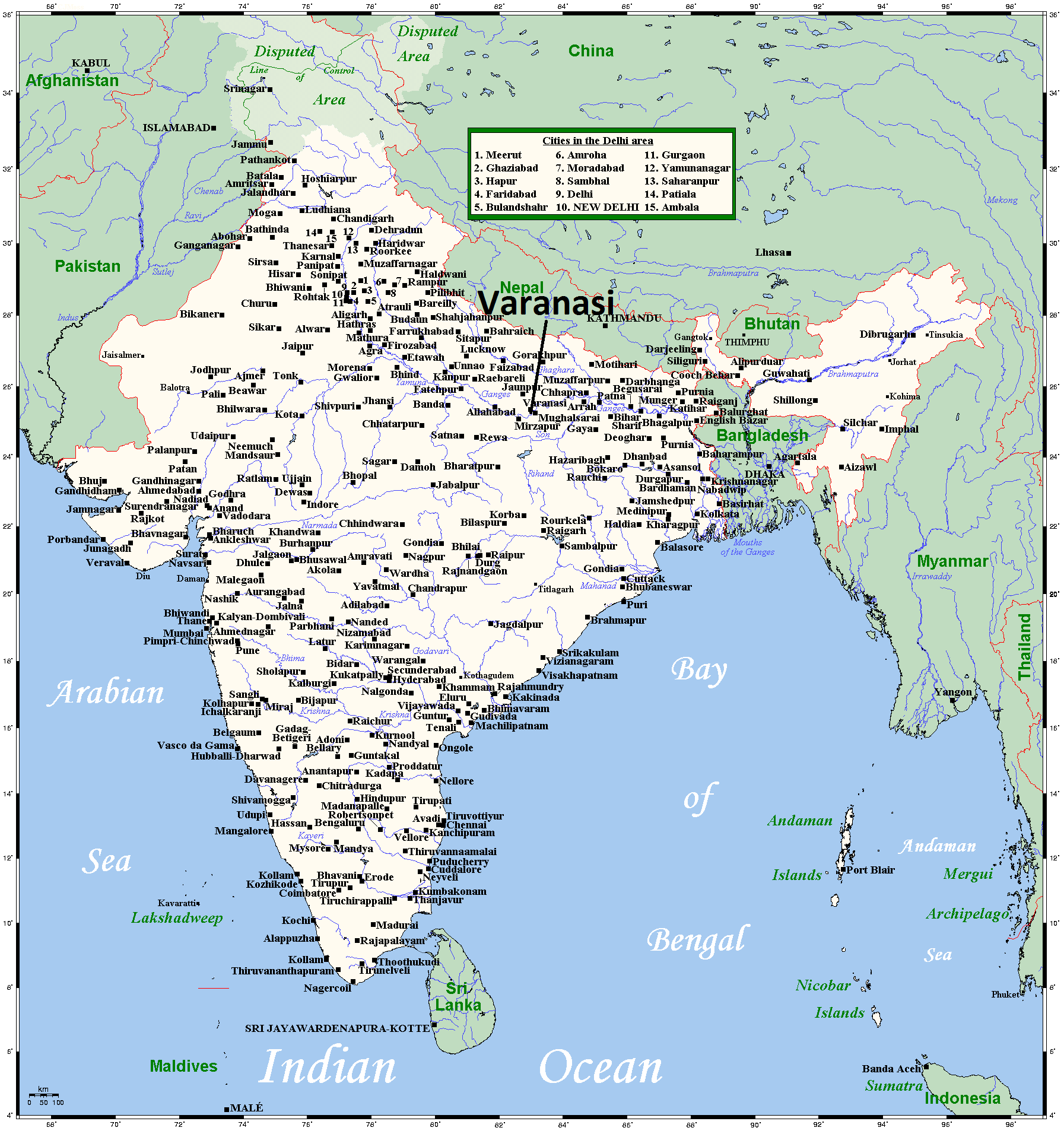 A map showing India's cities and main towns. I have endeavoured to include every city in India whose population is 100,000 or more. If you spot an oversight, leave a message on my talk page and I'll see if I can do anything about it.